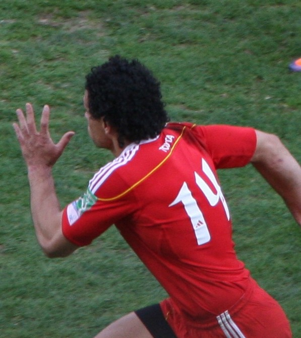 Munster vs Northampton Saints in the Heineken Cup Quarter Final at Thomond Park, Limerick - 10th April 2010 Munster vs Northampton Saints in the Heineken Cup Quarter Final at Thomond Park, Limerick - 10th April 2010